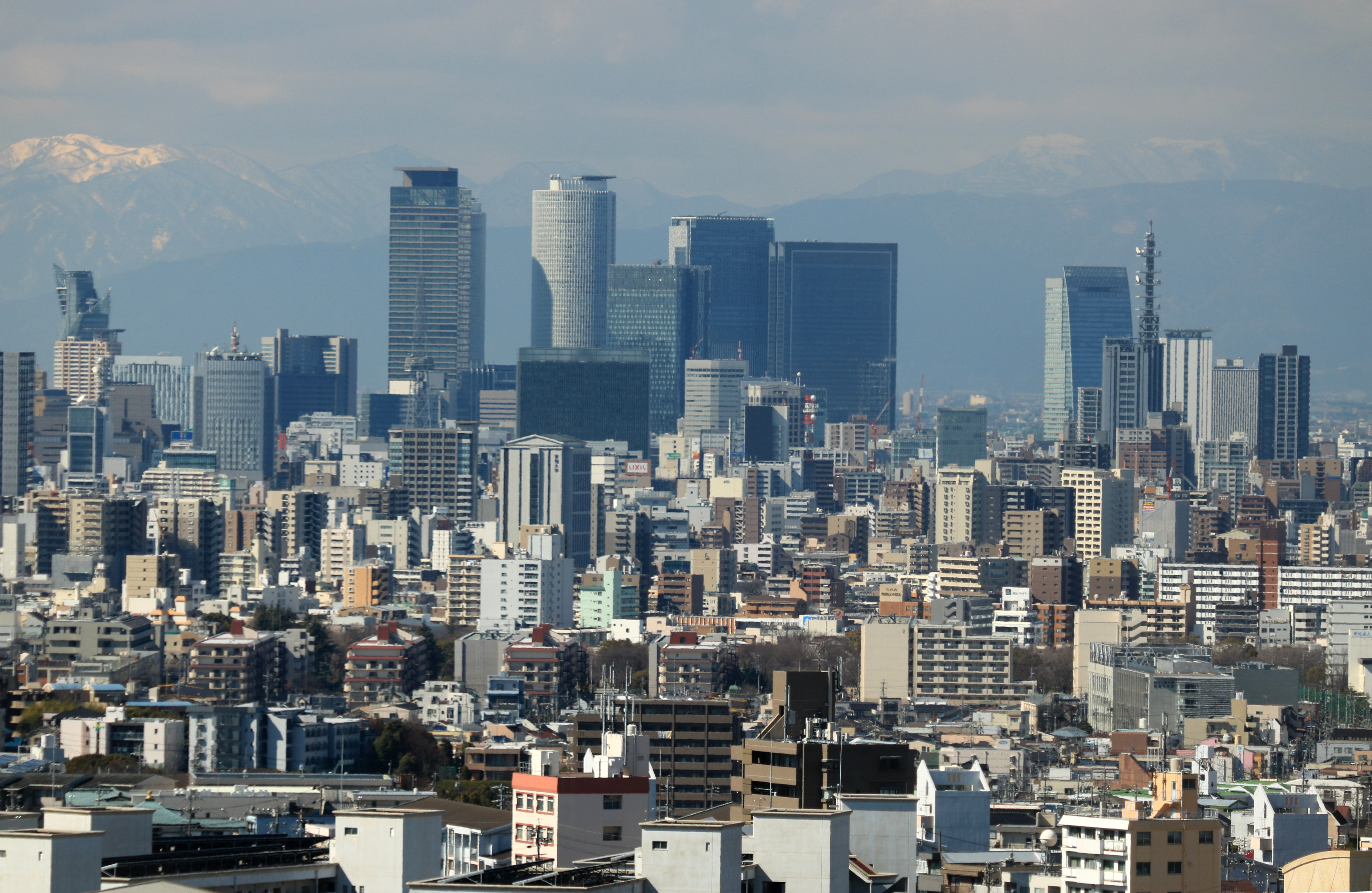 Meieki seen from Heiwa Park Aqua Tower in Nagoya, Aichi prefecture, Japan.